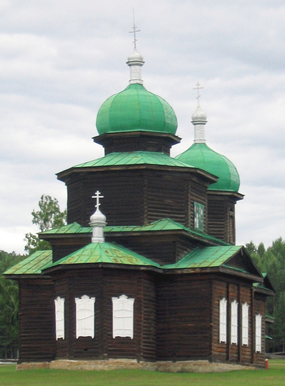 Image of a Russian Old Believer church moved to the ethnographic museum in Ulan Ude. Taken by me 7/06, released into public domain.